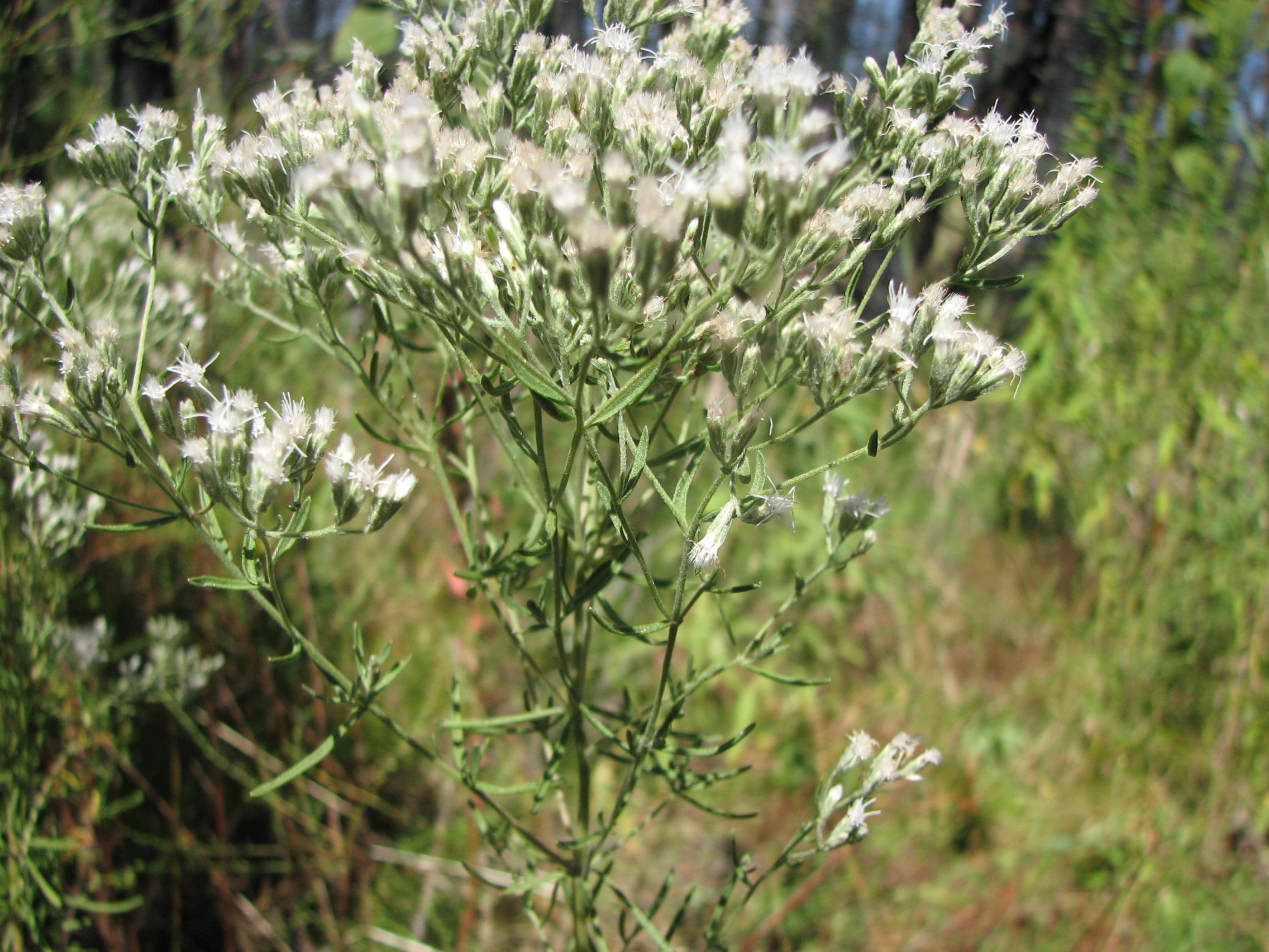 Eupatorium hyssopifolium in the New Jersey Pine Barrens.